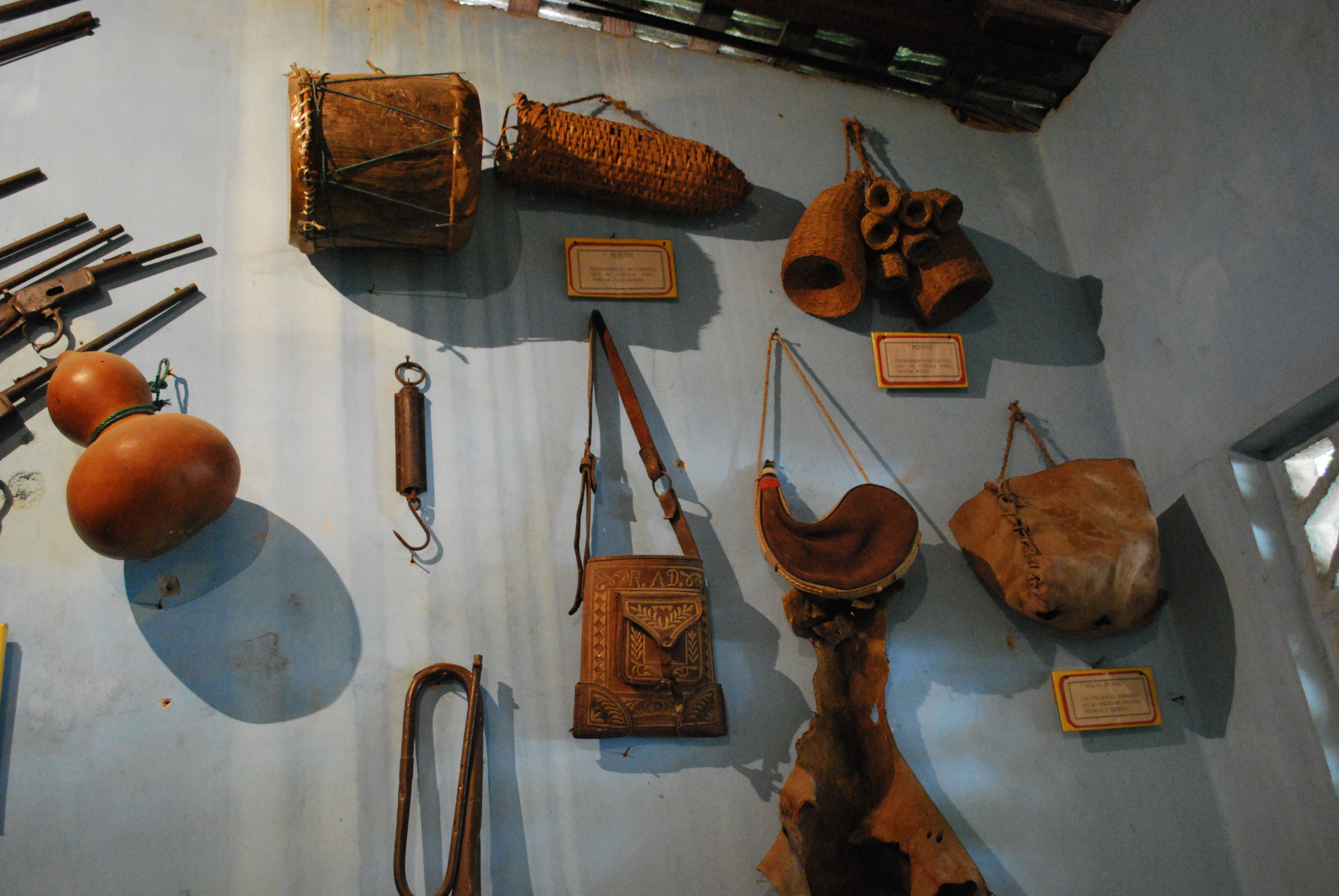 Items on display at the Xochistlahuaca Community Museum